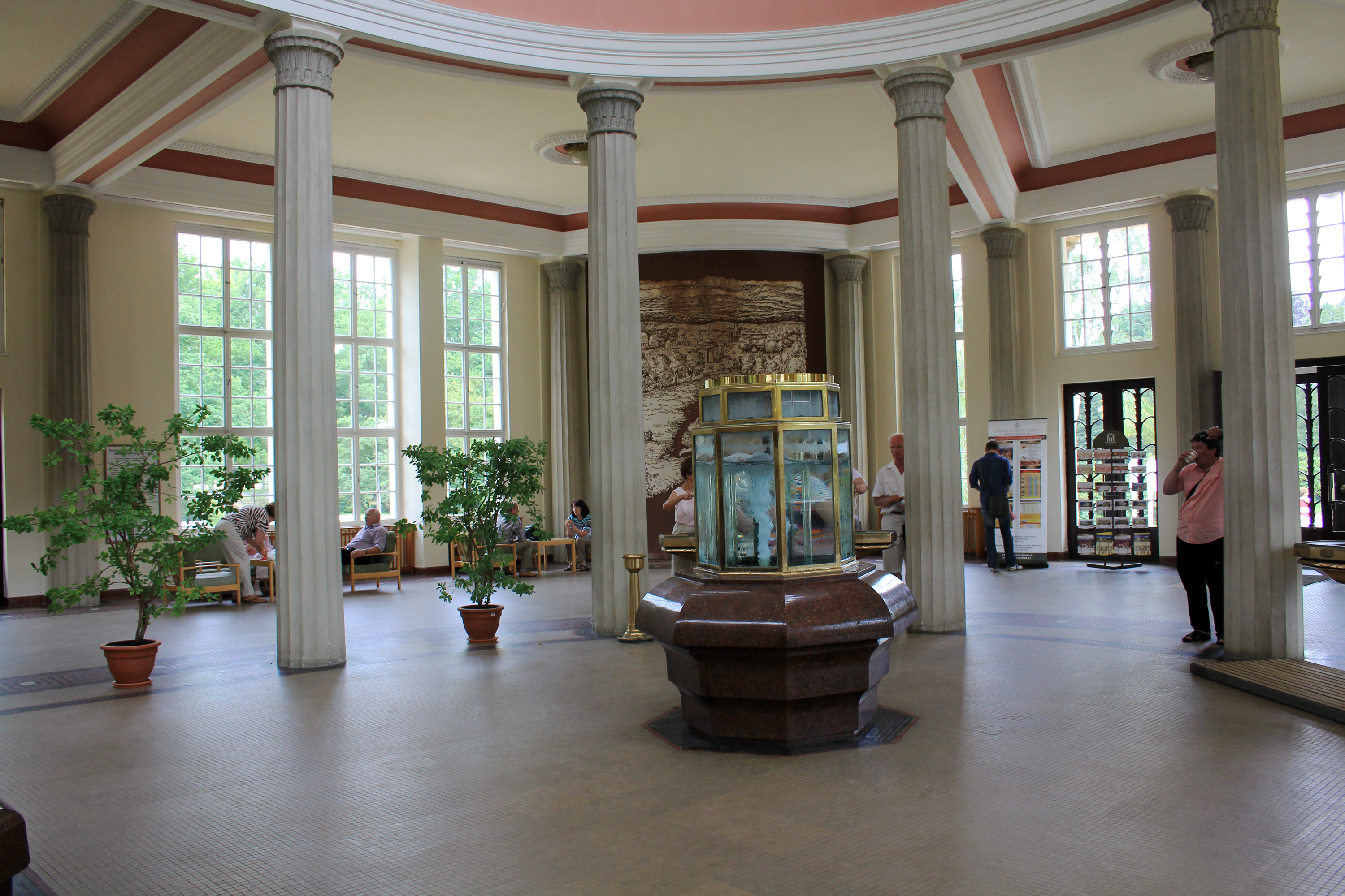 Interior of building of Glauber Springs in Františkovy Lázně, west Bohemia Czech Republic